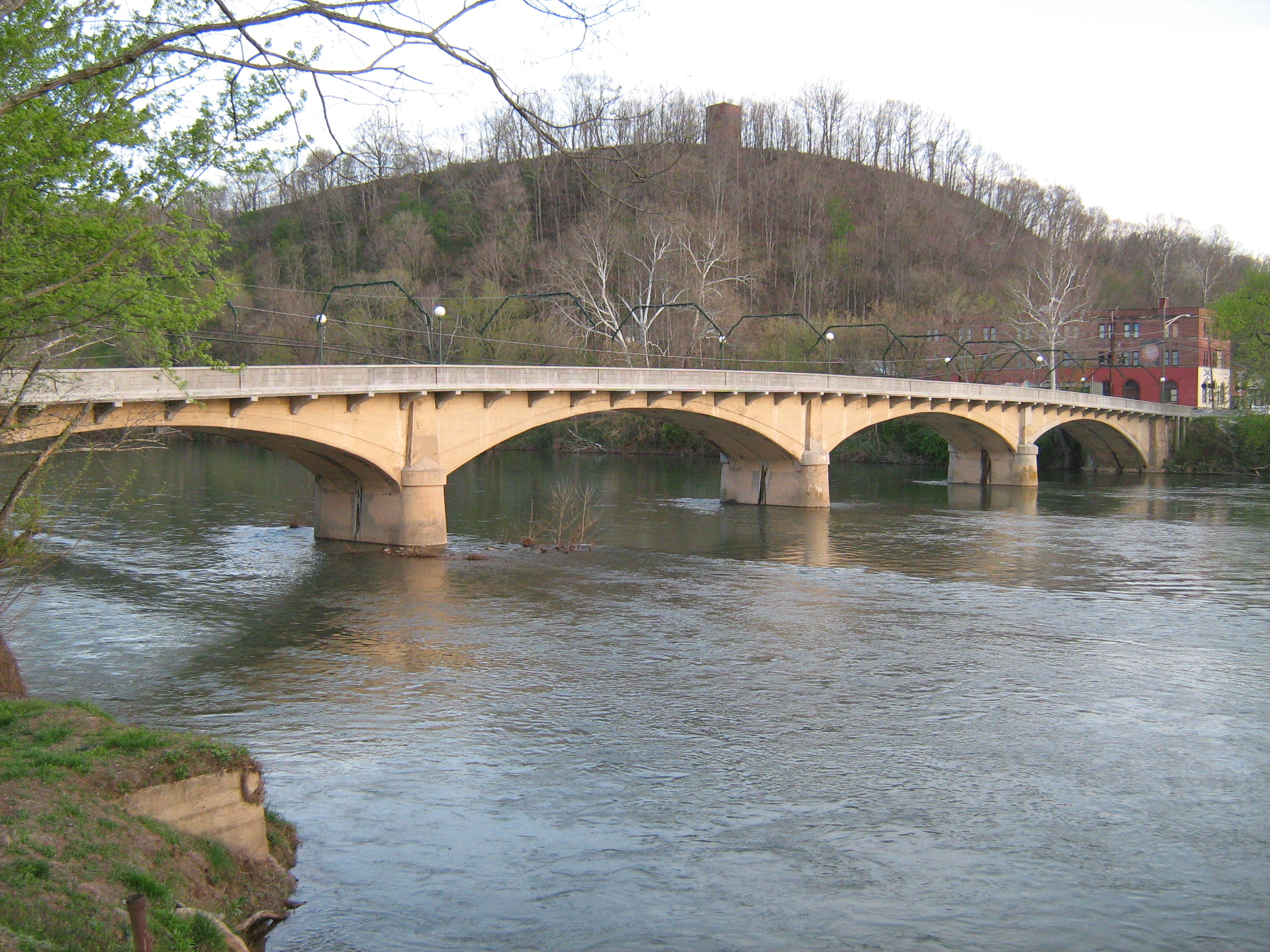 The "Alderson Memorial Bridge" in Alderson, West Virginia (over the Greenbrier River). The view is to the Monroe County side of town.